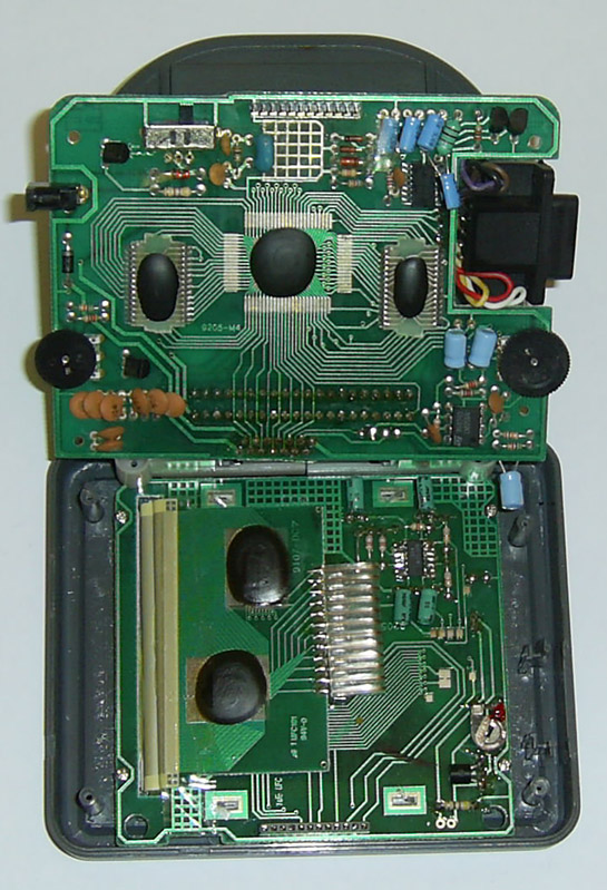 Supervision internal electronics with secondary PCB opened to see inside